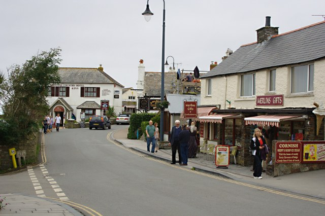 Fore Street Tintagel Although it's a grey September day there are still plenty of visitors looking around the Arthurian tat shops. (Taken from Fore Street looking along Atlantic Road.)